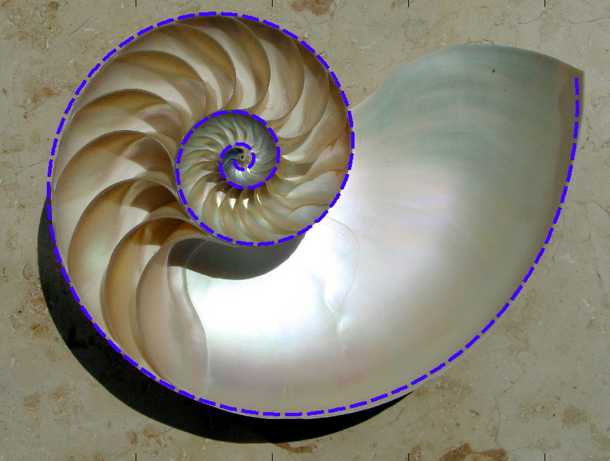 Logarithmic spiral (dashed blue curve) plotted on top of File:NautilusCutawayLogarithmicSpiral.jpg For this spiral, the radius grows by a factor of 1.1923 per 1 radian of angle. It is not an exact fit to the Nautilus, being off if different directions in different parts, but is a good approximate fit.